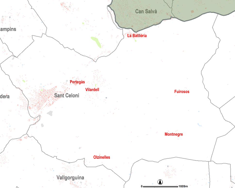 nuclis de població de Sant Celoni